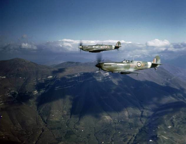 Two Superamrine Spitfire Mk.IX's of No 241 Squadron, Royal Air Force, MA425/`RZ-R' and MH635/`RZ-U' piloted by Flying Officers H. Cogman and J.V. Macdonald respectively flying over mountainous country south of Rome.